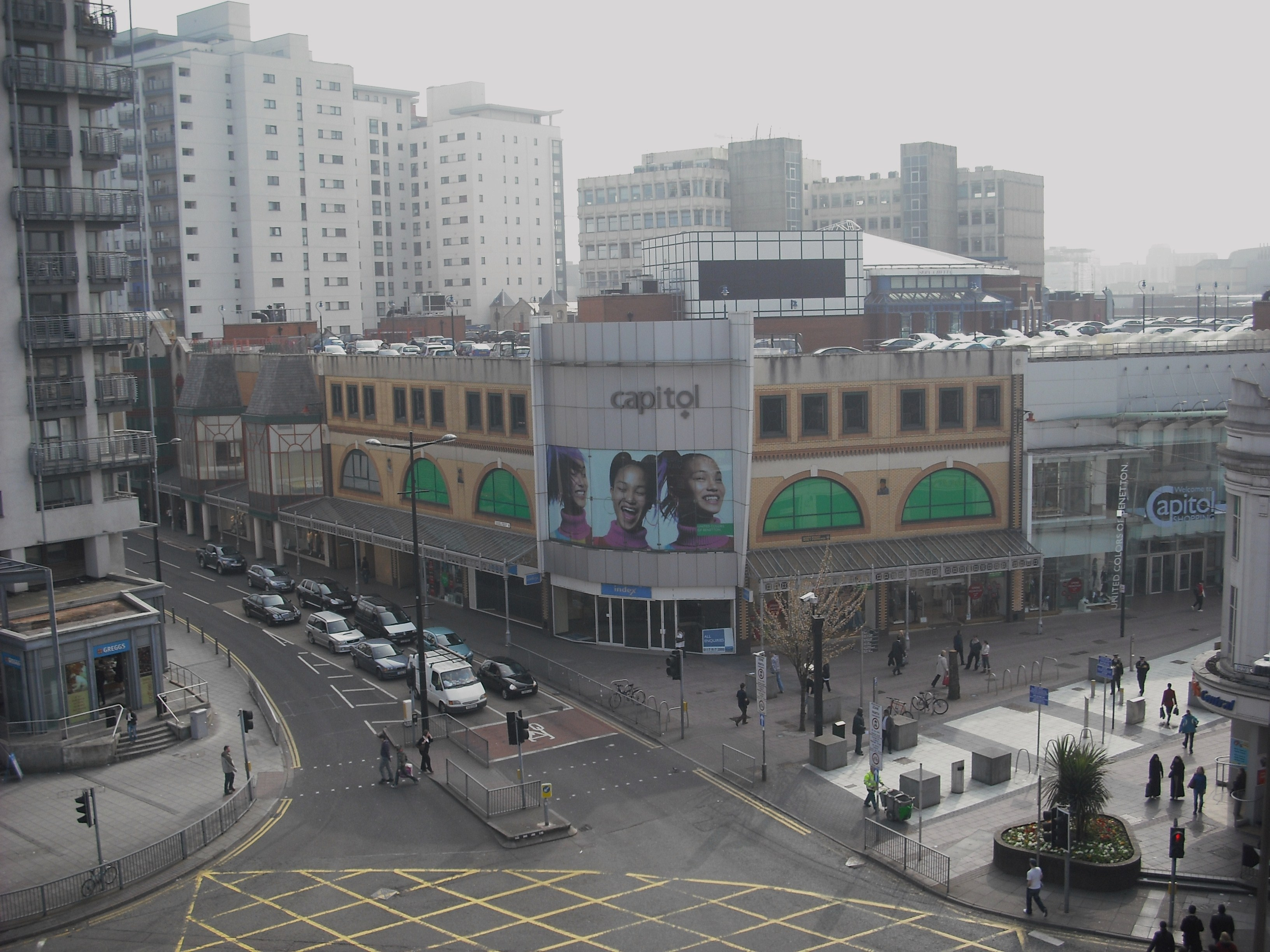 The junction with the pedestrianised Queen Street, Station Terrace ahead, Dumfries Place to the right and Newport Road to the left in Cardiff. Queen Street station is behind the white apartment tower